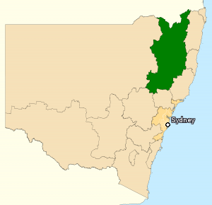 Incorporates or developed using Administrative Boundaries ©PSMA Australia Limited licensed by the Commonwealth of Australia under Creative Commons Attribution 4.0 International licence (CC BY 4.0). Derived from State and Territory Boundaries from the Australian Bureau of Statistics under Creative Commons Attribution 2.5 Australia license (CC BY 2.5 AU)